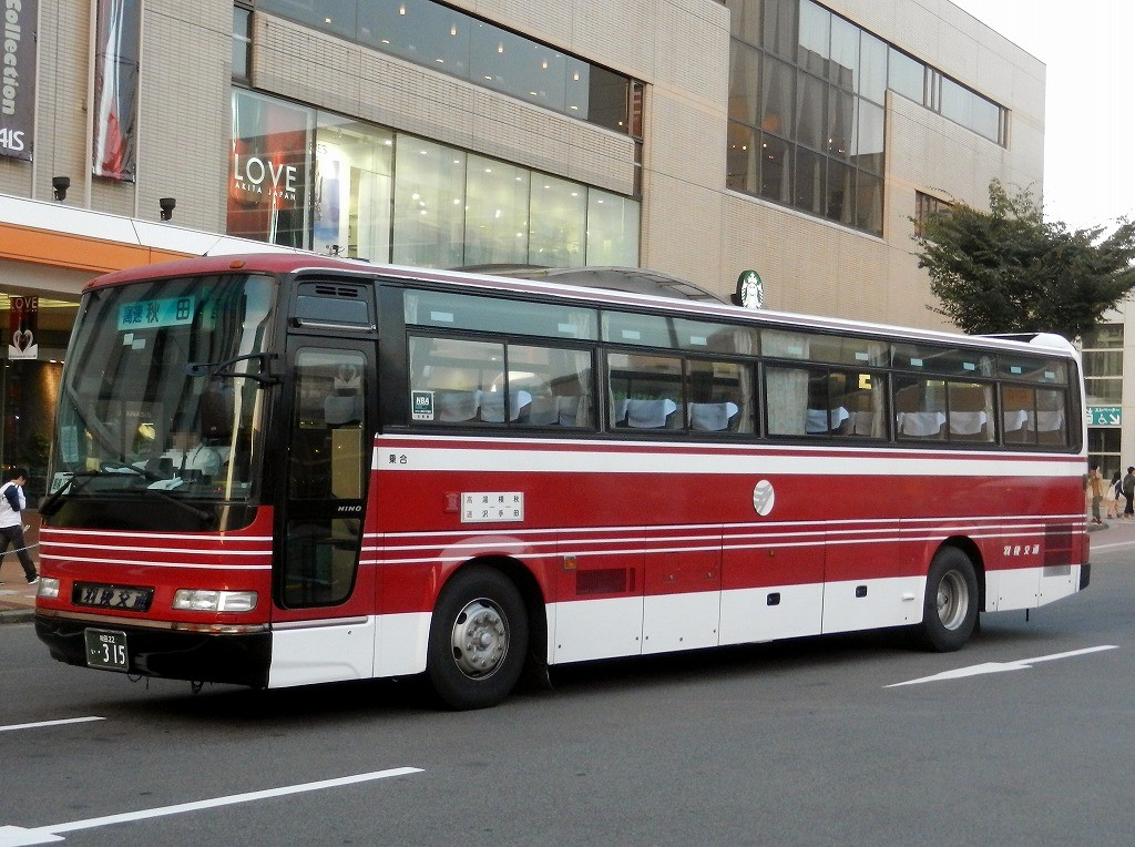 Ugo Kotsu Hino S'elega (U-RU2FTAB) for highwaybus "Yuzawa,Yokote - Akita"